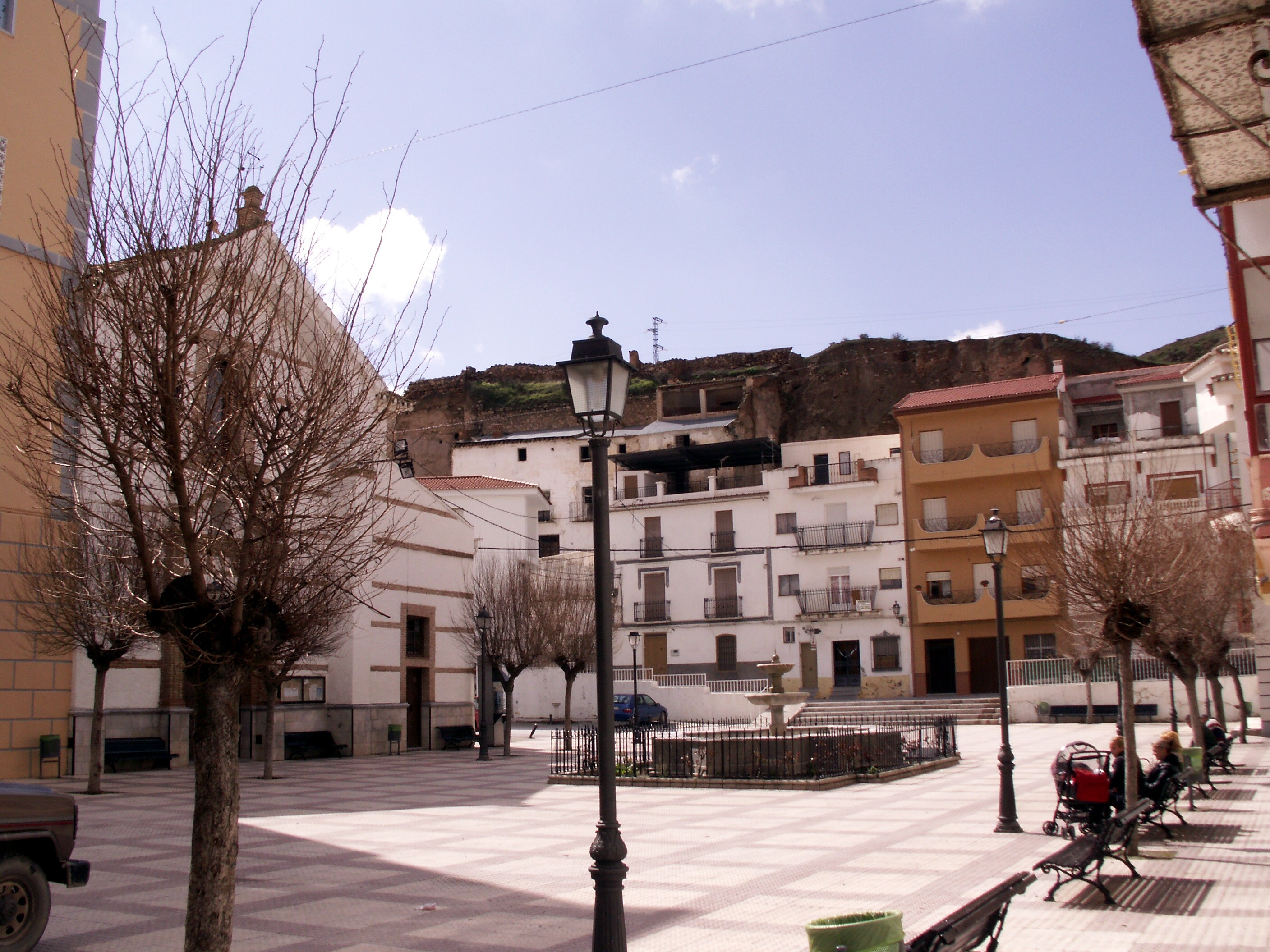 Zújar, Spain